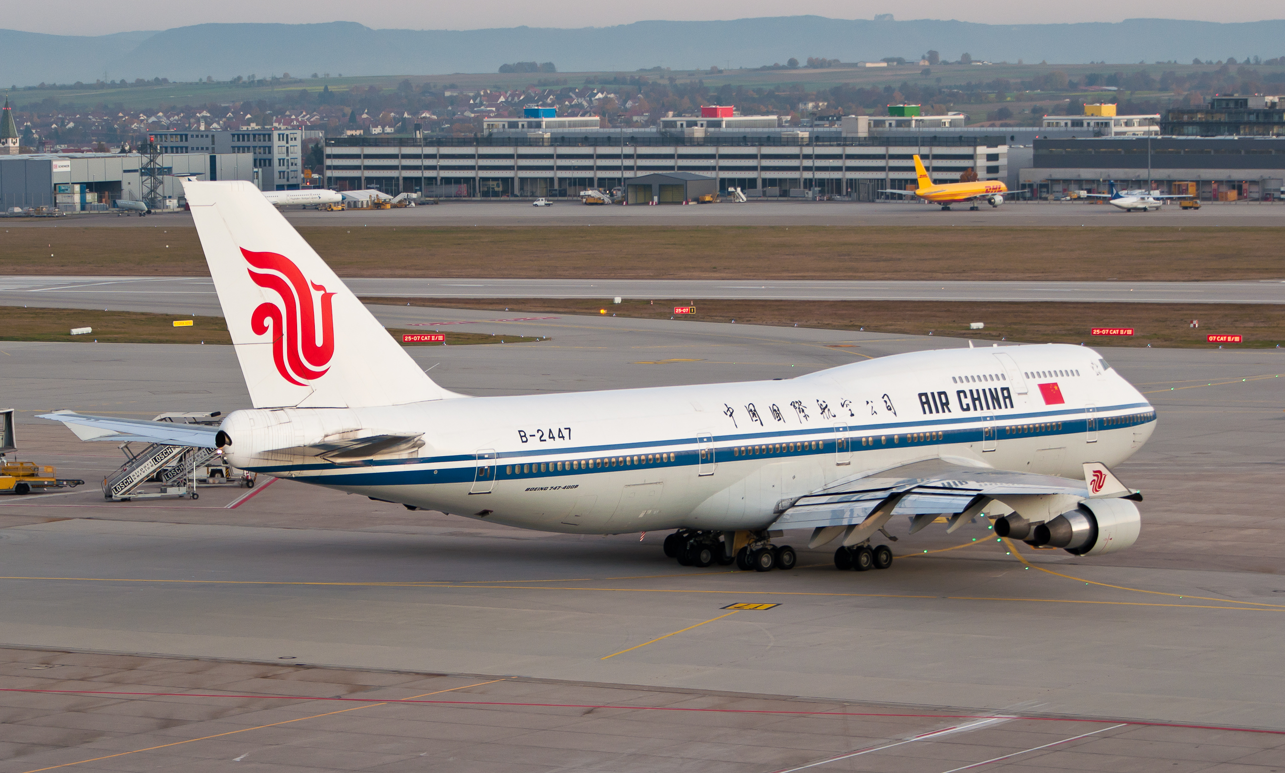 Air China Boeing 747-4J6, Registration:B-2447 - Stuttgart Airport (EDDS/STR)